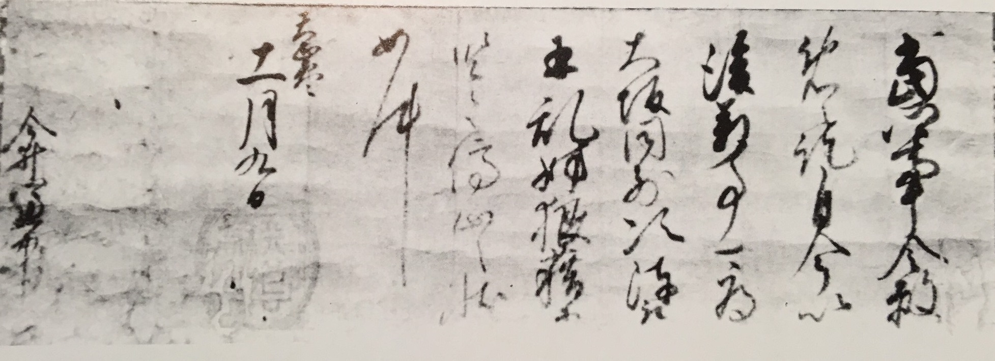 Oda Nobunaga vermilion shape